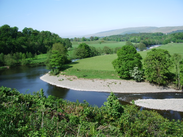 Ruskin's View